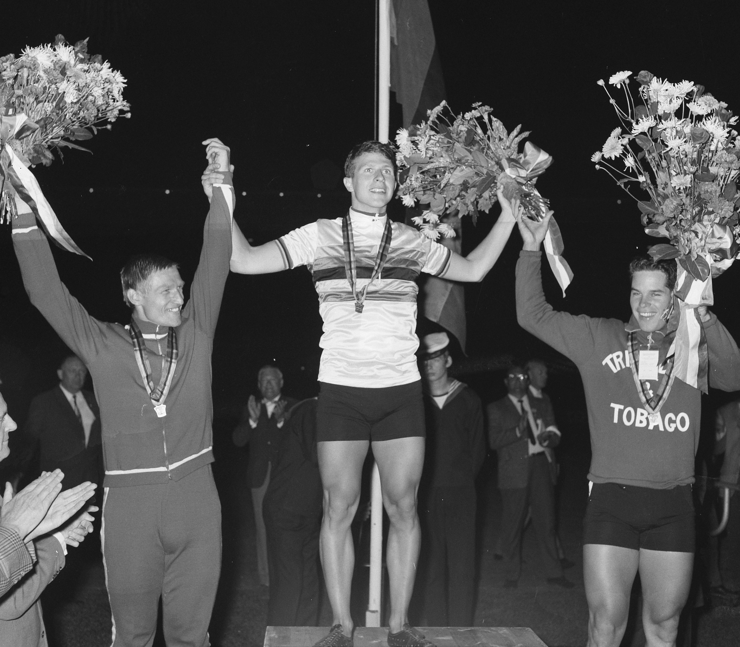 WK Wielrennen te Amsterdam. De Deen Friedborg op podium